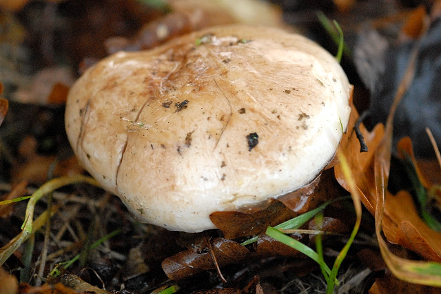 Chamaemyces fracidus from Commanster, Belgium. If you think this is a different taxon, please contact James Lindsey.